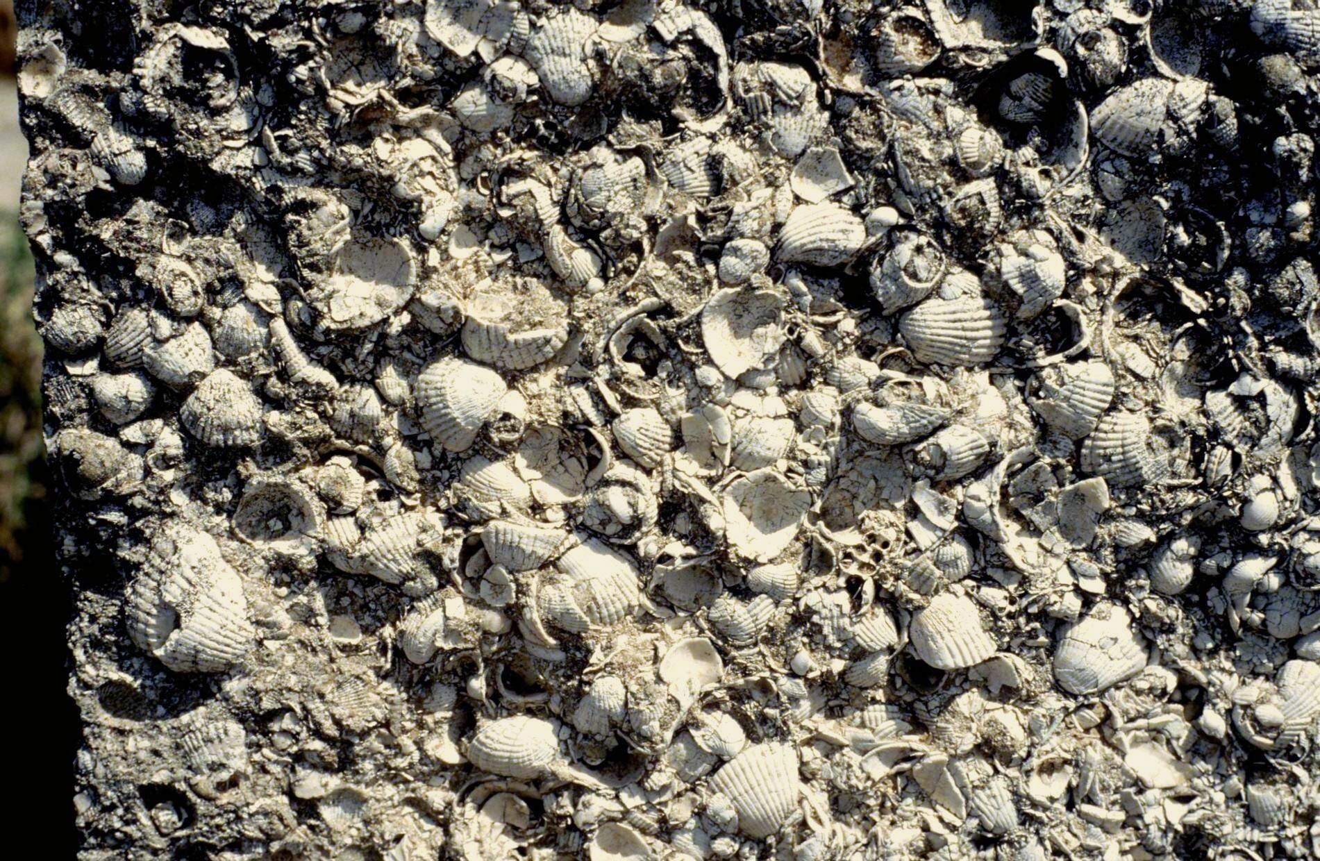 Weathering dimension stone (cenozoic bivalve and gastropod skeletal limestone with Cerastoderma) at the Temple of Zeus in Olympia, Greece